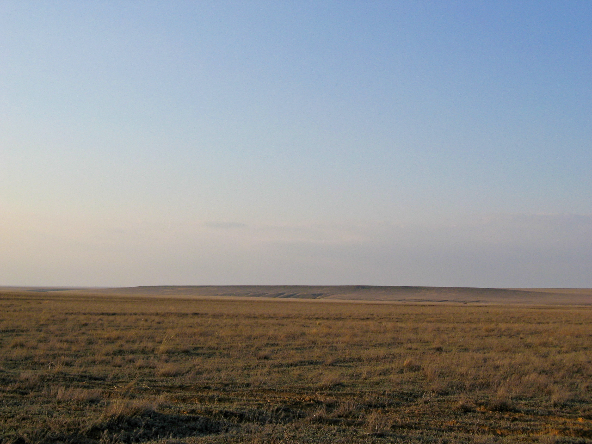 I took this picture in March 2004 in western Kazakhstan. Originally uploaded as Image:Steppe_of_western_Kazakhstan_in_the_early_spring.jpg by User:Carole a on 2004-9-14 18:52.